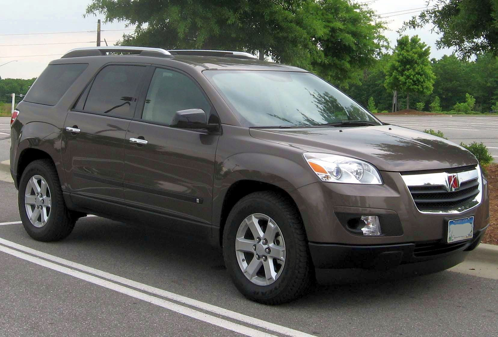 2007 Saturn Outlook photographed in USA.